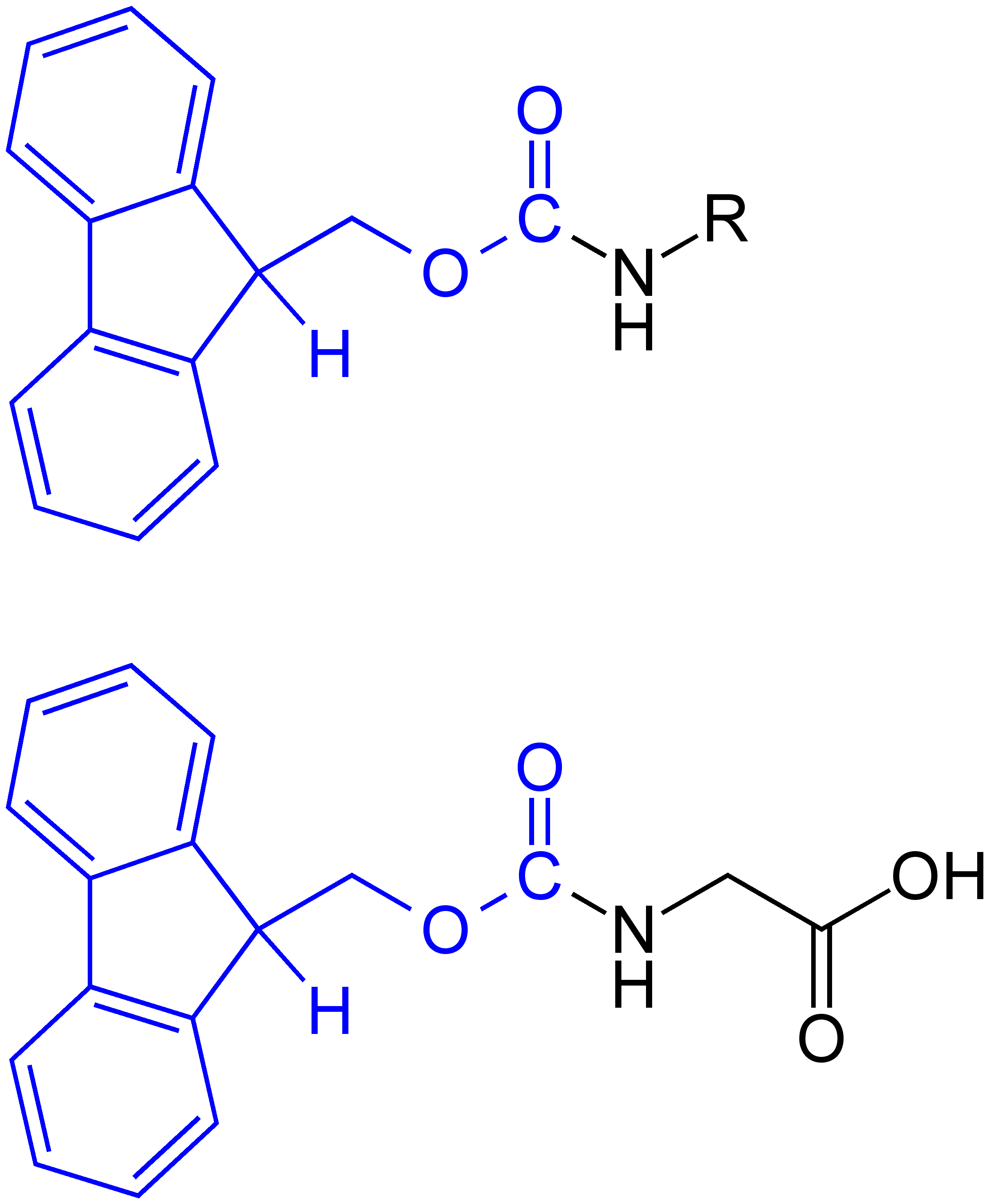 Fmoc_Protecting_Group_General_Formulae